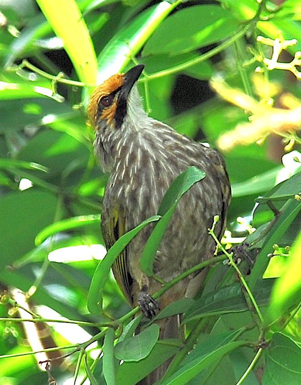 Straw-headed Bulbul Pycnonotus zeylanicus, Bukit Timah Nature Reserve, Singapore